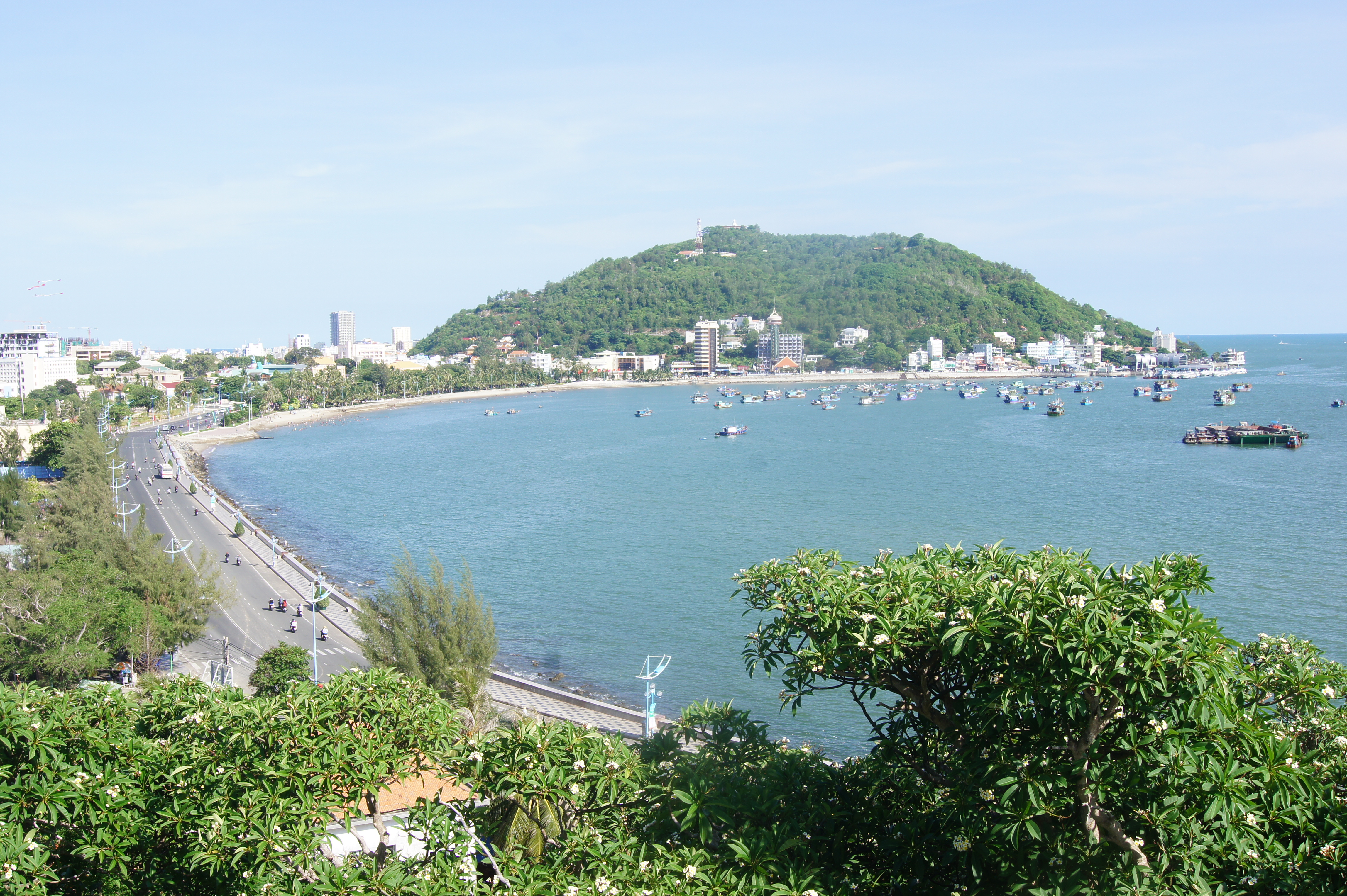 Vung Tau coastline viewed from Bạch Dinh